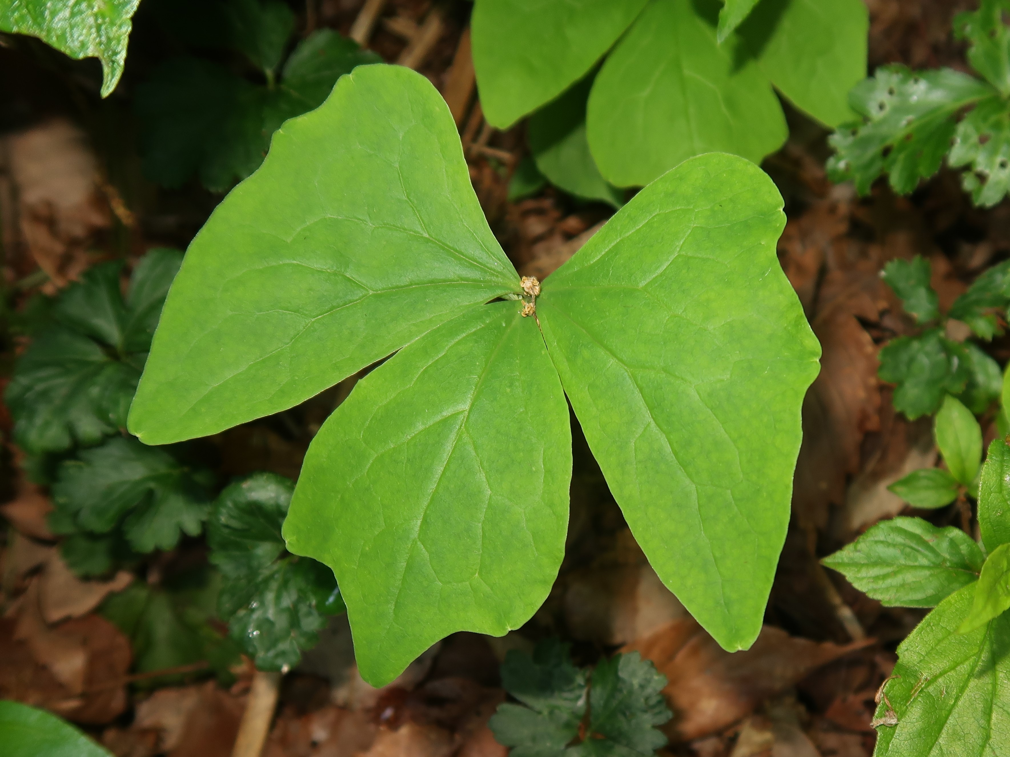 Achlys japonica, Odate city, Akita pref., Japan